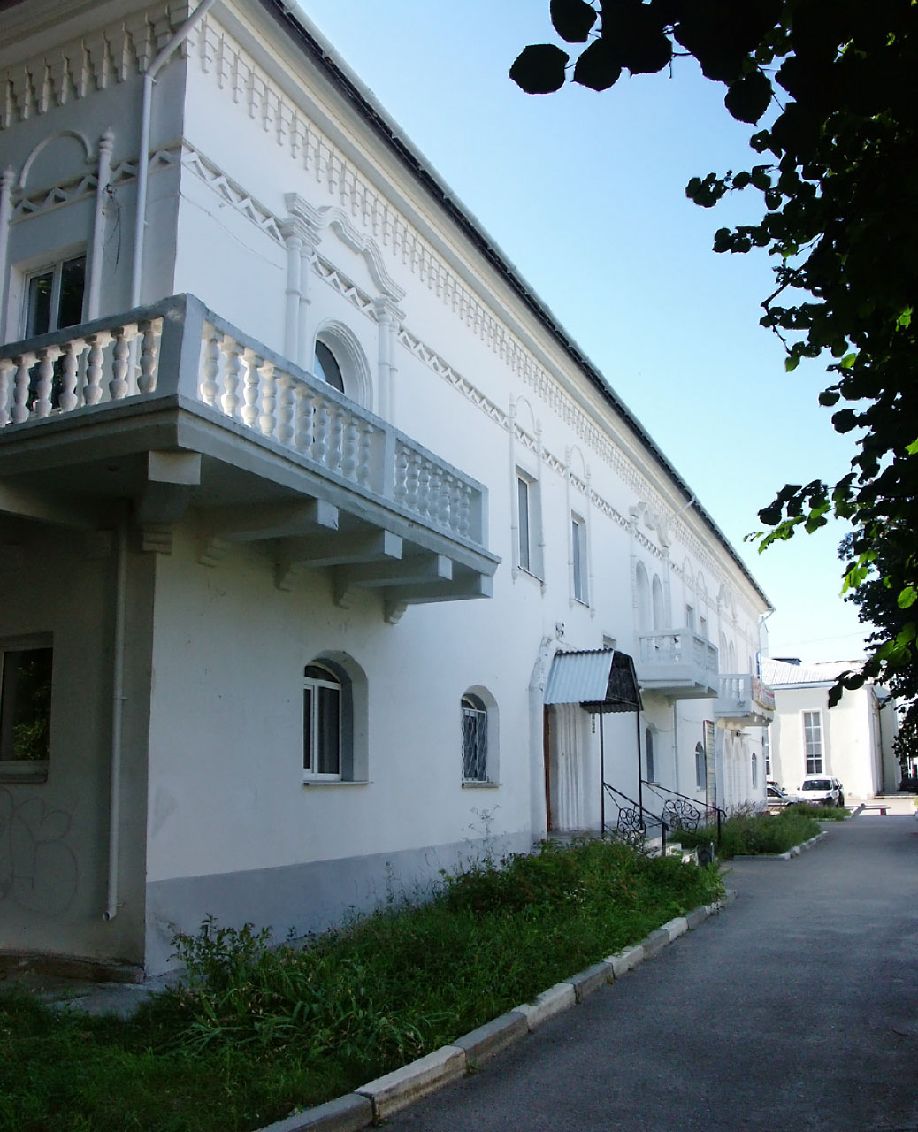 Teater at Oktyabrskaya street